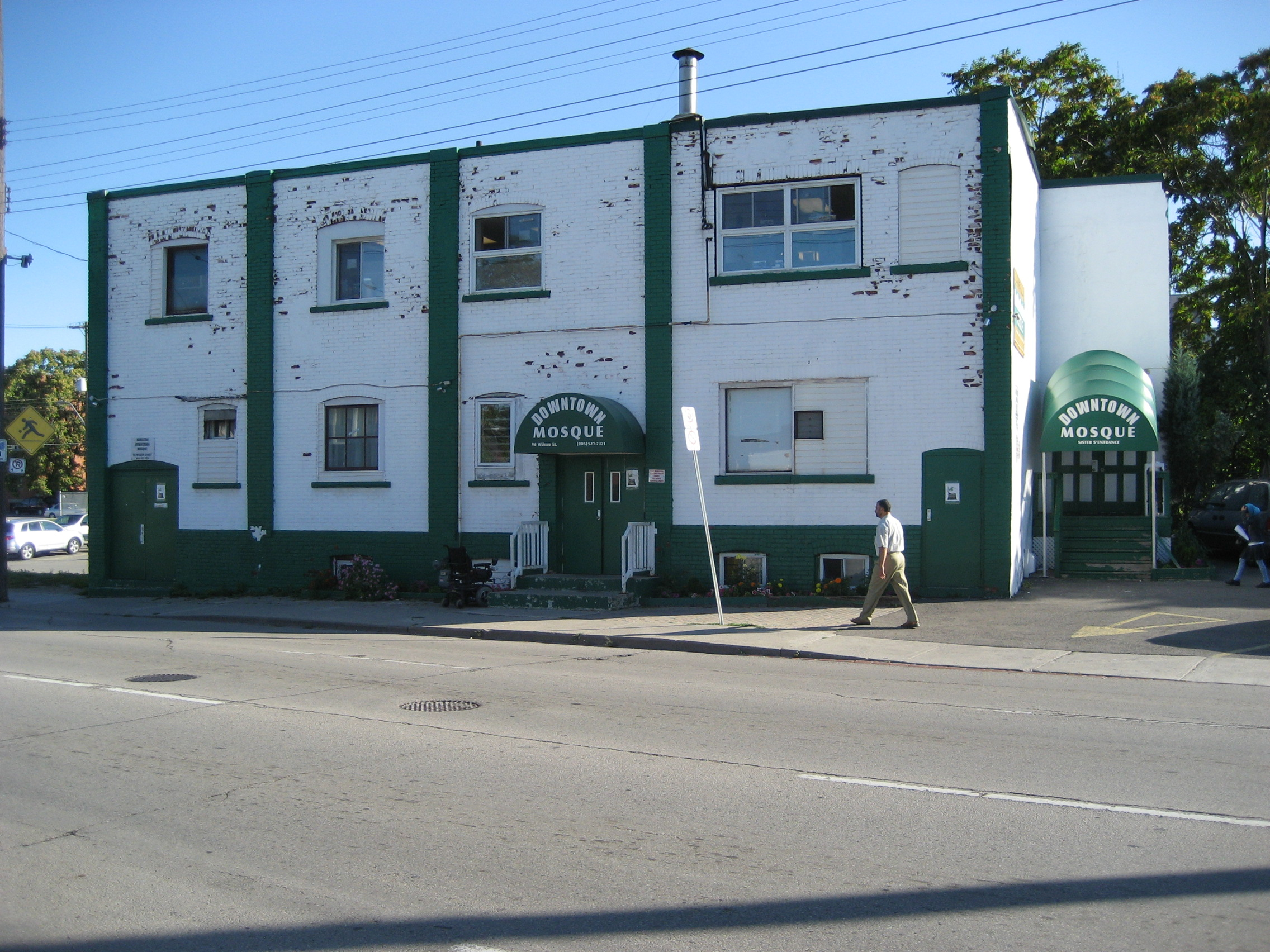 Hamilton Downtown Mosque, Wilson Street, Hamilton, Canada.